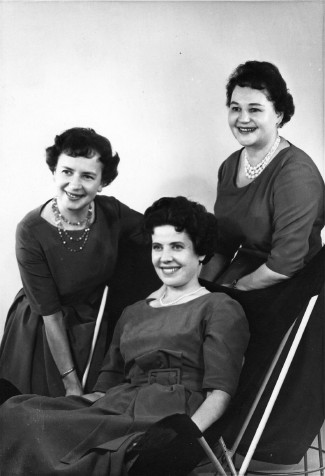 Metro-Tytöt finnish singing group